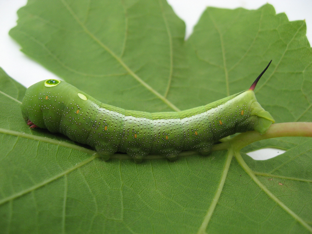 Hippotion celerio in Canberra A.C.T.